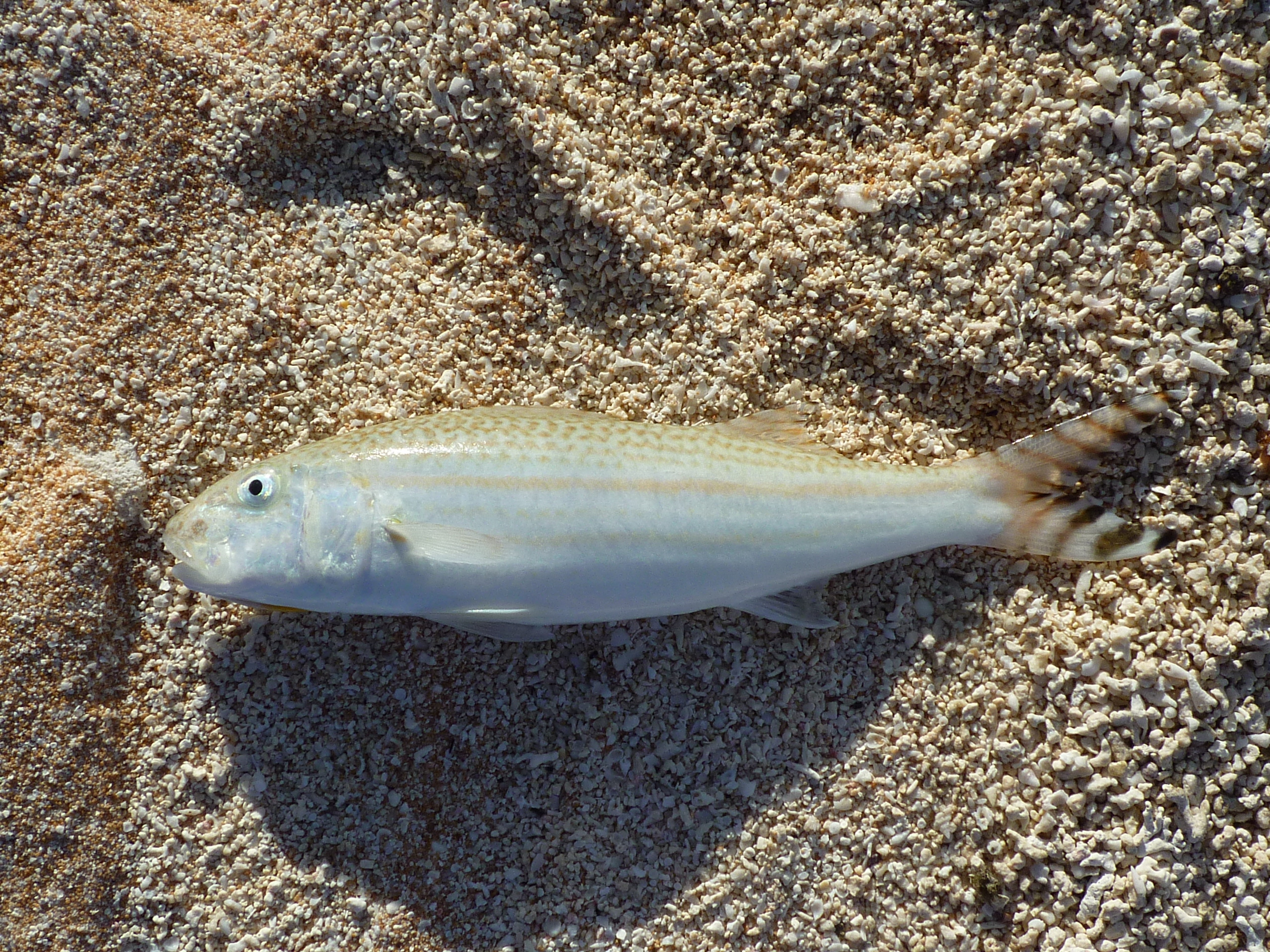 Upeneus arge = Syn. Upeneus taeniopterus for FishBase